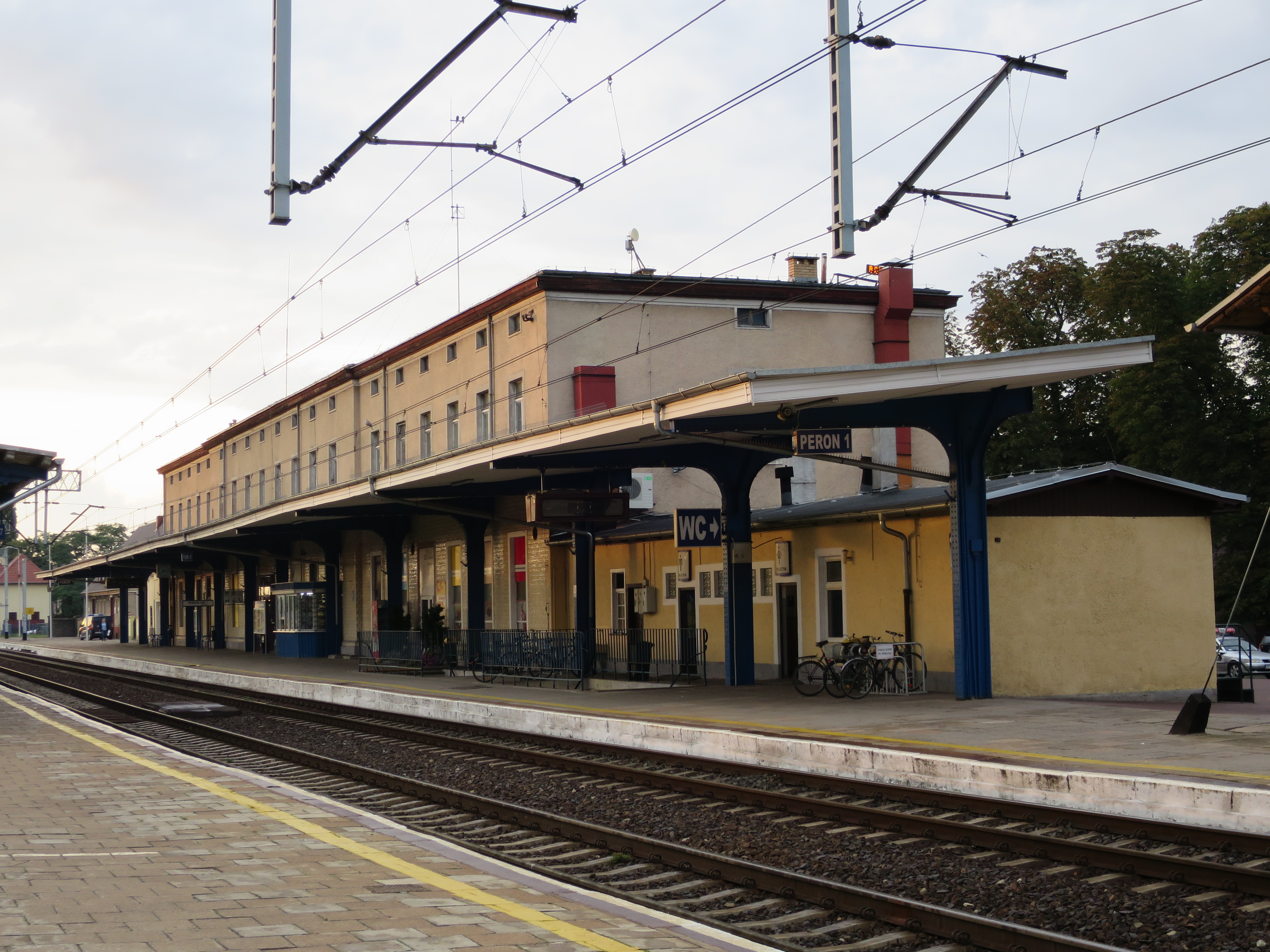 Stargard Szczeciński This photo was taken during Railway Wikiexpedition 2015 set up by Wikimedia Polska Association in cooperation with Fundacja Grupy PKP.You can see all photographs in category Wikiekspedycja kolejowa 2015.